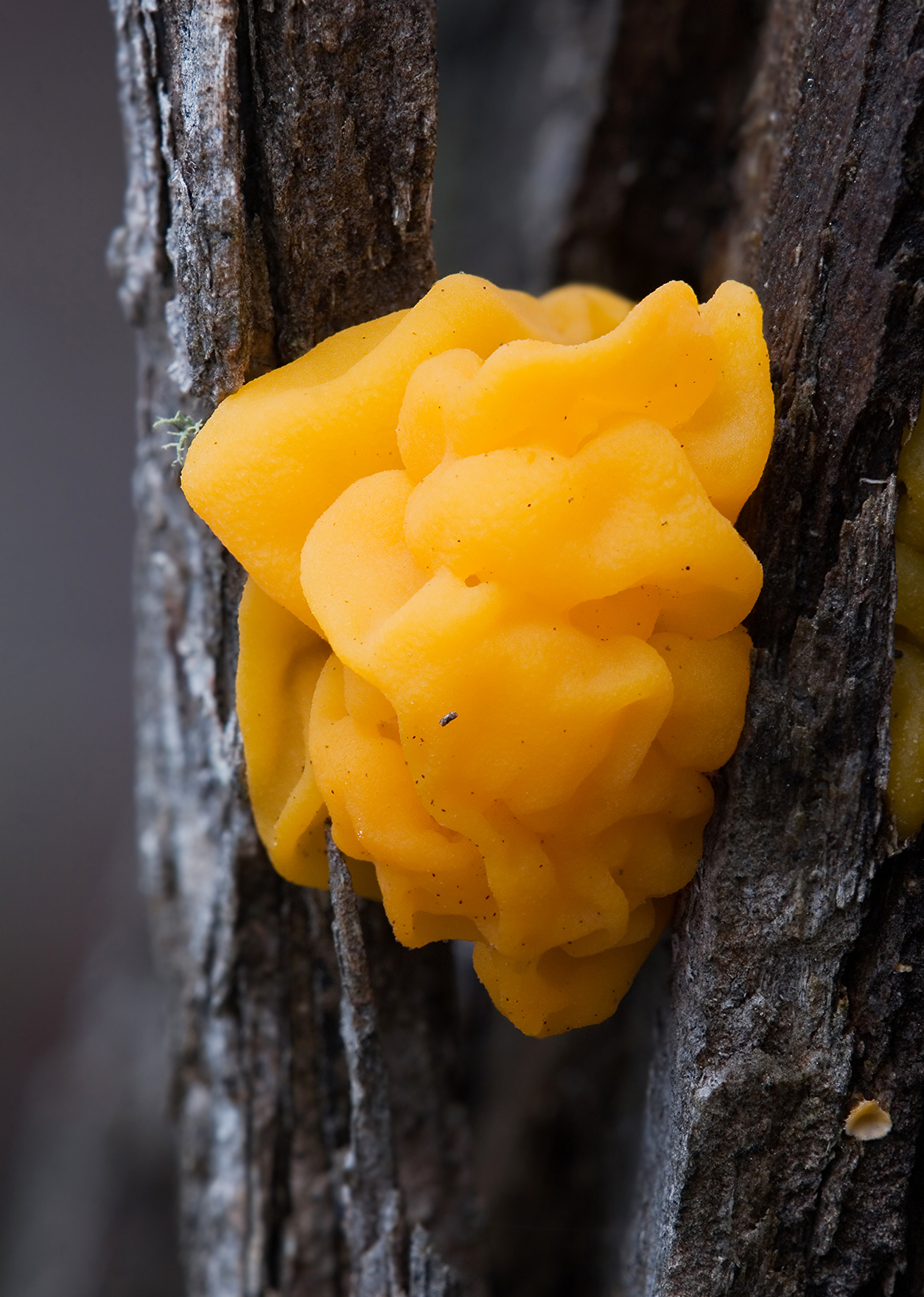 Tremella mesenterica, Granton, Tasmania, Australia